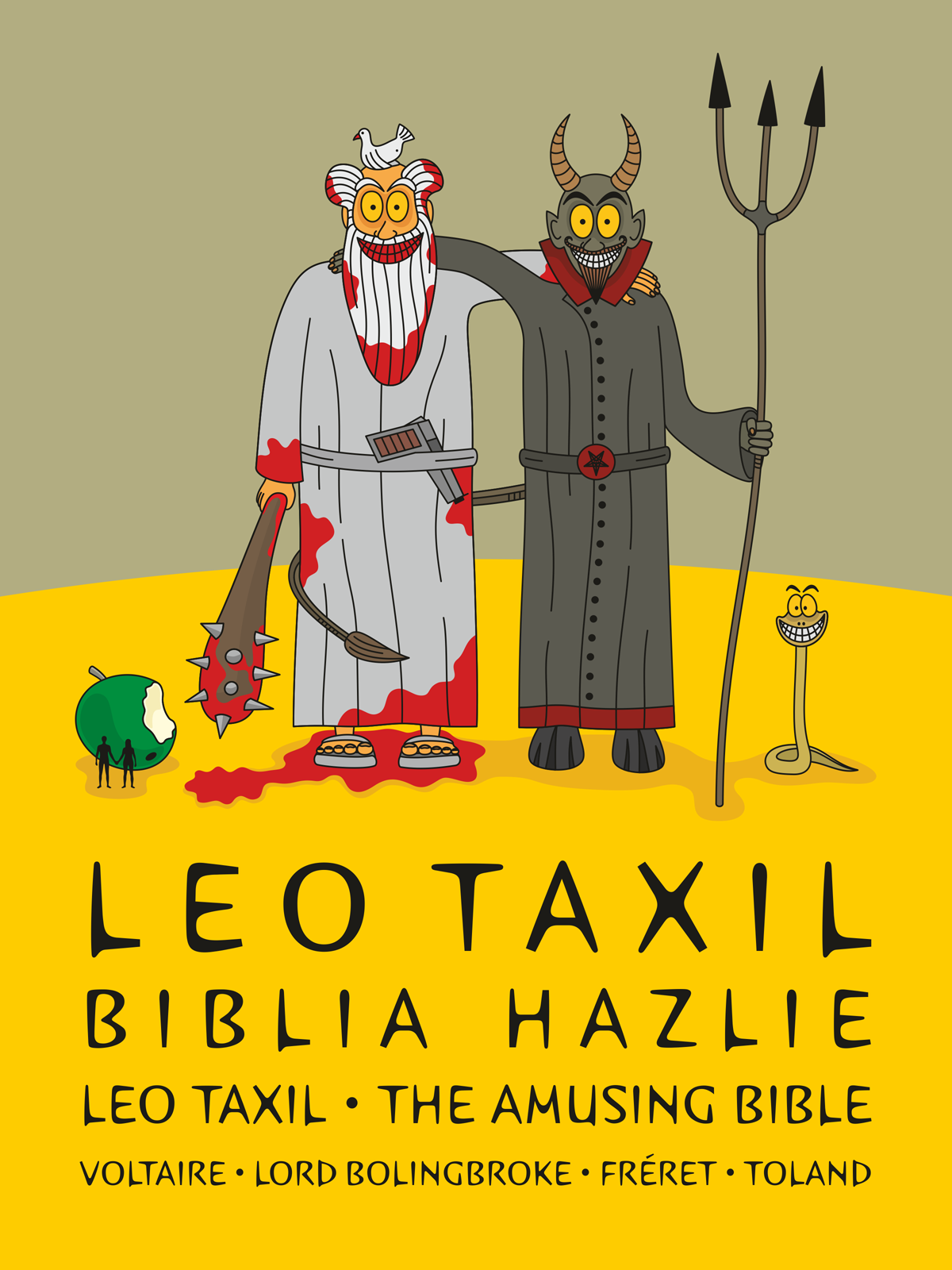 Leo Taxil - The Amusing Bible - Romanian Cover